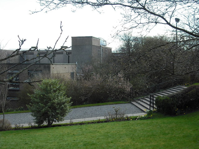 Rear of Airdrie library The copper dome is an observatory used by local astronomers.